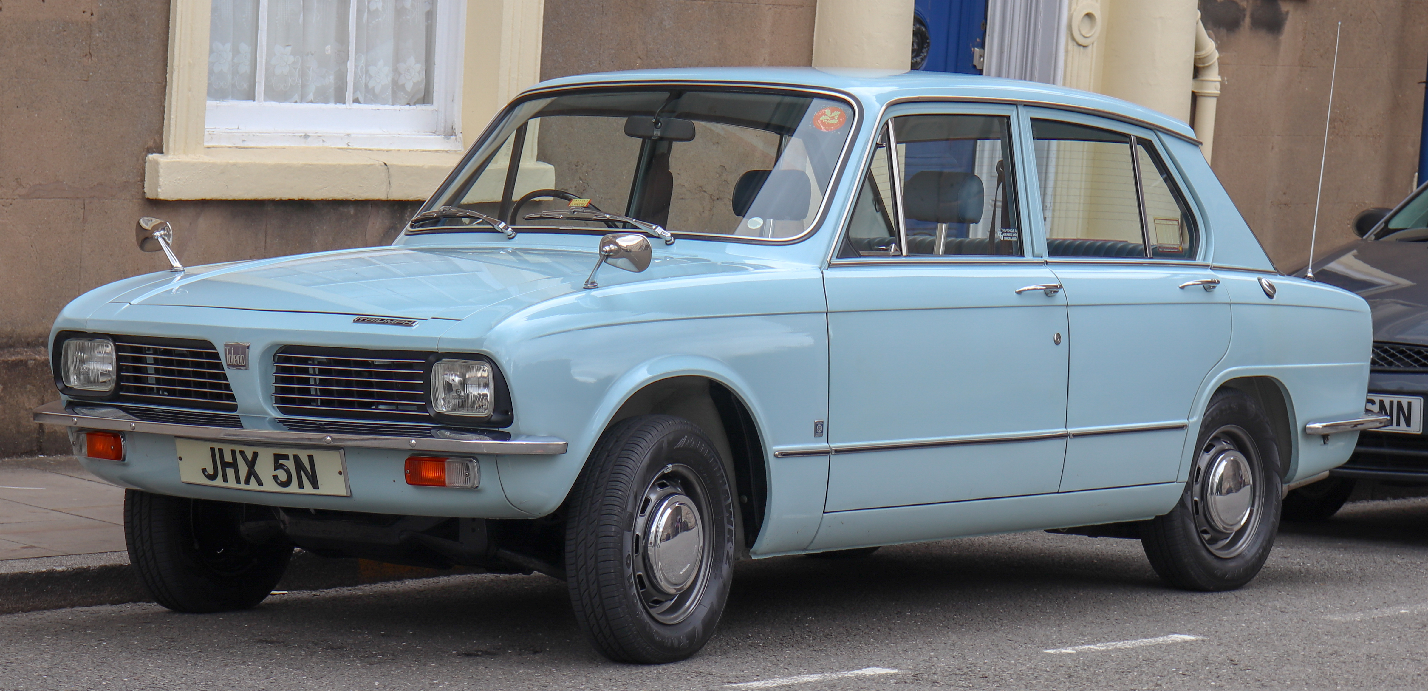 1975 Triumph Toledo 1.3 Front Taken in Warwick